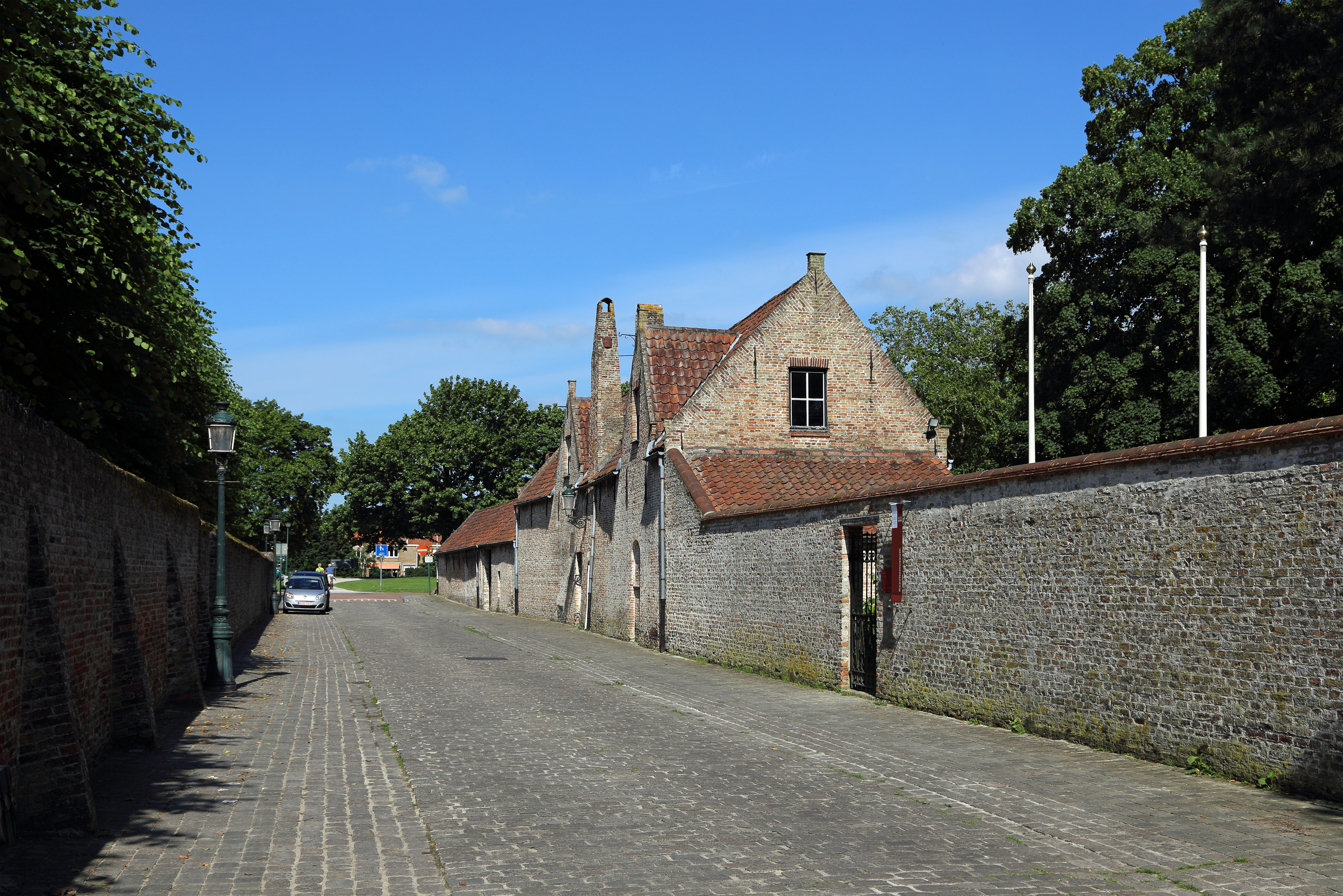 Bruges (Belgium): Rolweg